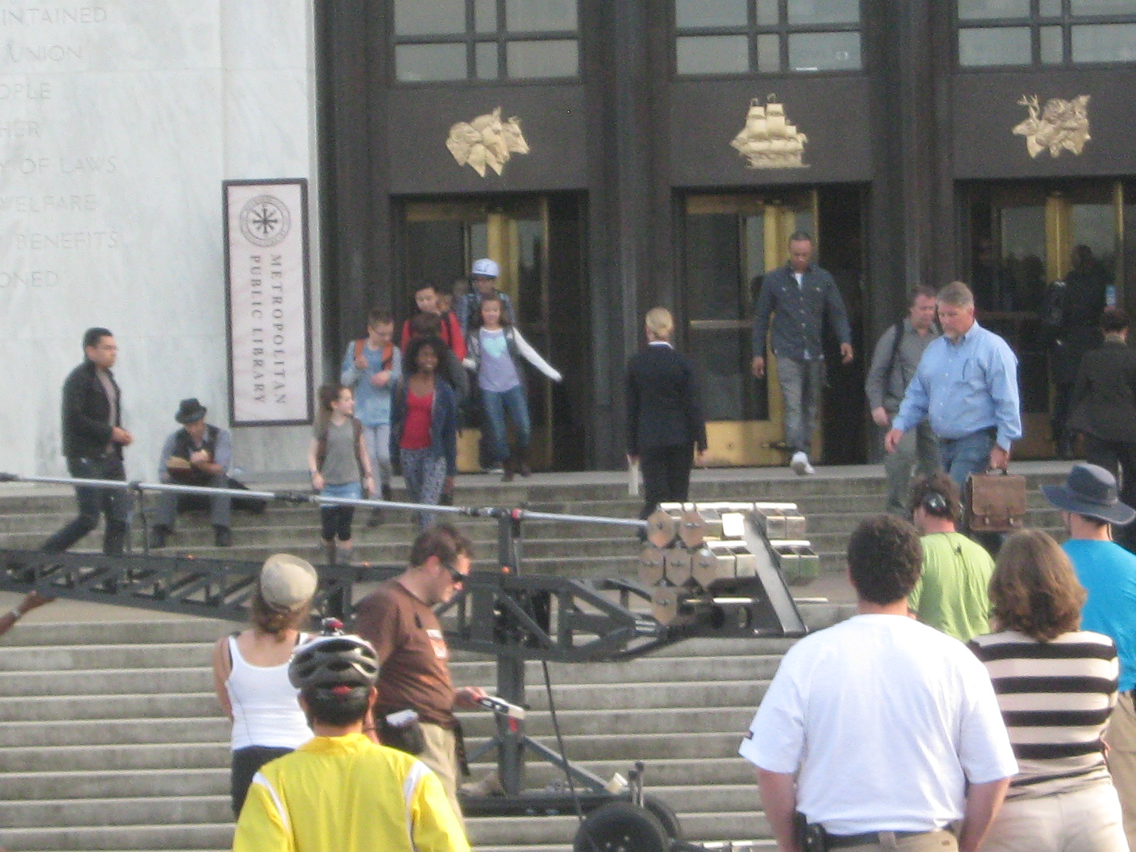 TNT television show The Librarians filming in Salem, Oregon, United States in front of the Oregon State Capitol building, which is being used here as as set for the "Metropolitan Public Library". A group of children is seen leaving the building. Other people playing patrons are in the scene and filming equipment and spectators are visible.